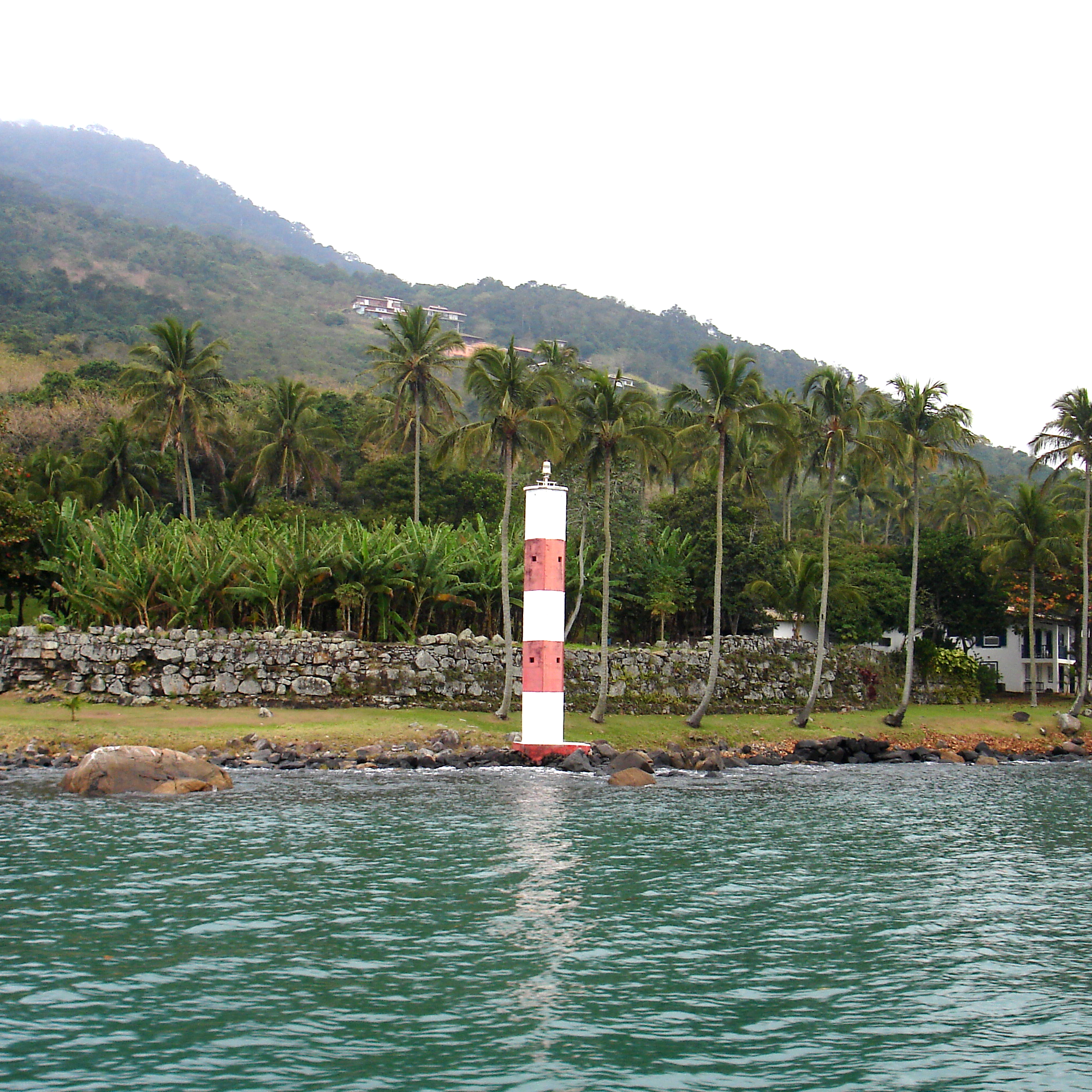 This is the light house of Ponta das Canas located at north of San Sebastian island, Ilhabela city, Brazil - 23°44'S 45°20'W